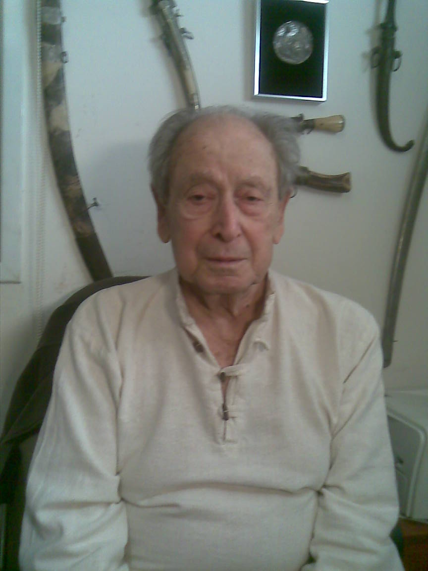 Eliyahu navi in is home at Omer, 28 October 2010.